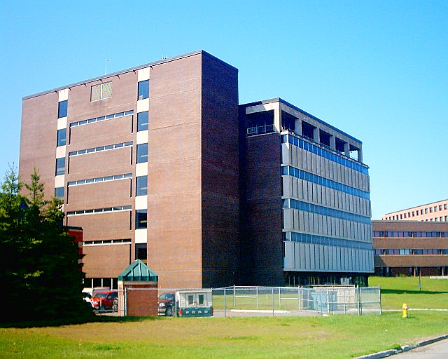 Chancellor Paterson Library at Lakehead University in Thunder Bay, Ontario